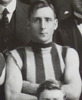 Photograph of Jack Monohan from 1924-1925